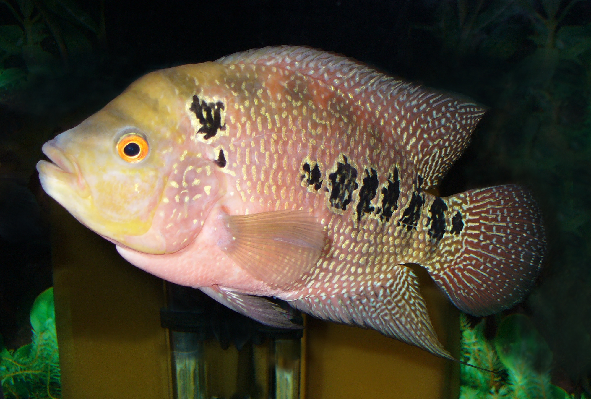 Trimac cichlid Cichlasoma trimaculatum